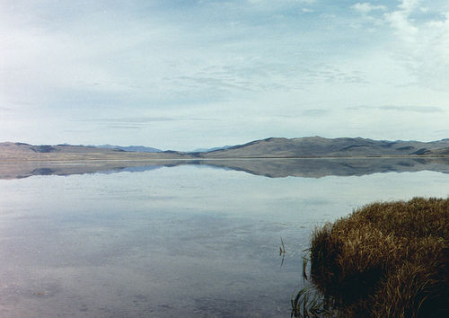 Photo of Upper Red Rock Lake, Montana, in the Red Rock Lakes Wilderness.